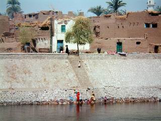 This image was copied from fr. The original description was: Description de l'image : Le Nil Source : Aoineko Statut : GFDL